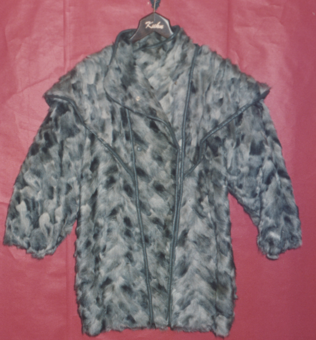 Jacket of kid for paws, Germany